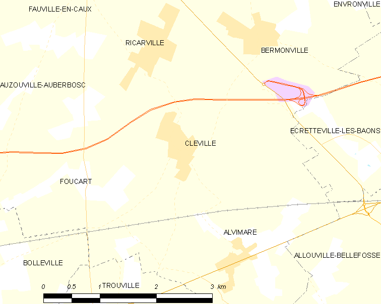 Map of French municipality Cléville